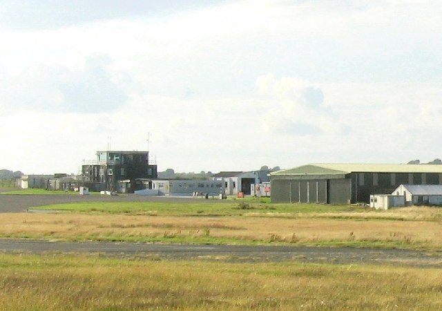 Swansea Airport on Fairwood Common. A small airport for lighter aircraft.